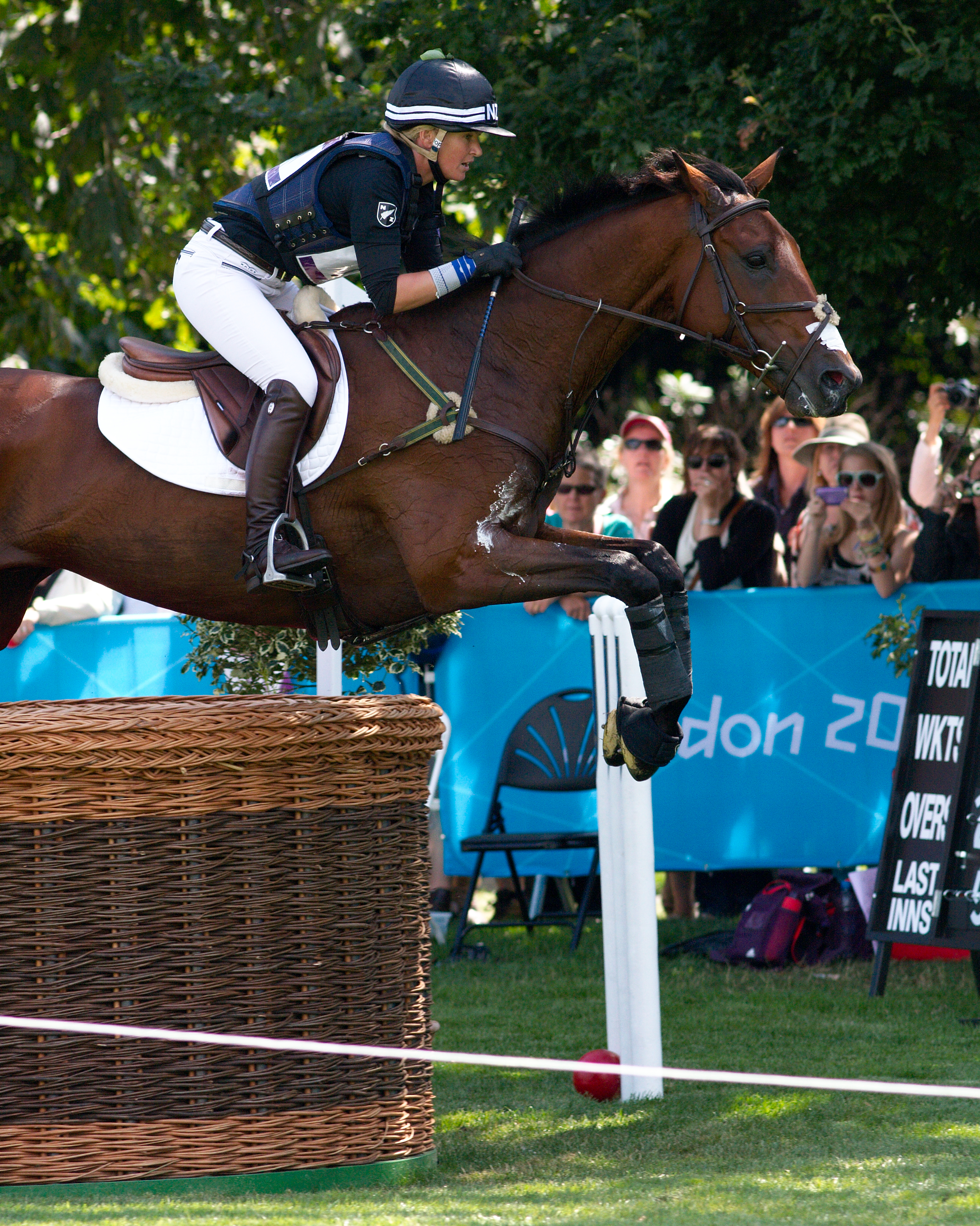 Jonelle Richards and Flintstar, competing for NZL, at fence 23, during the cross-country phase of the Eventing during the 2012 Olympic Games in Greenwich Park, London.